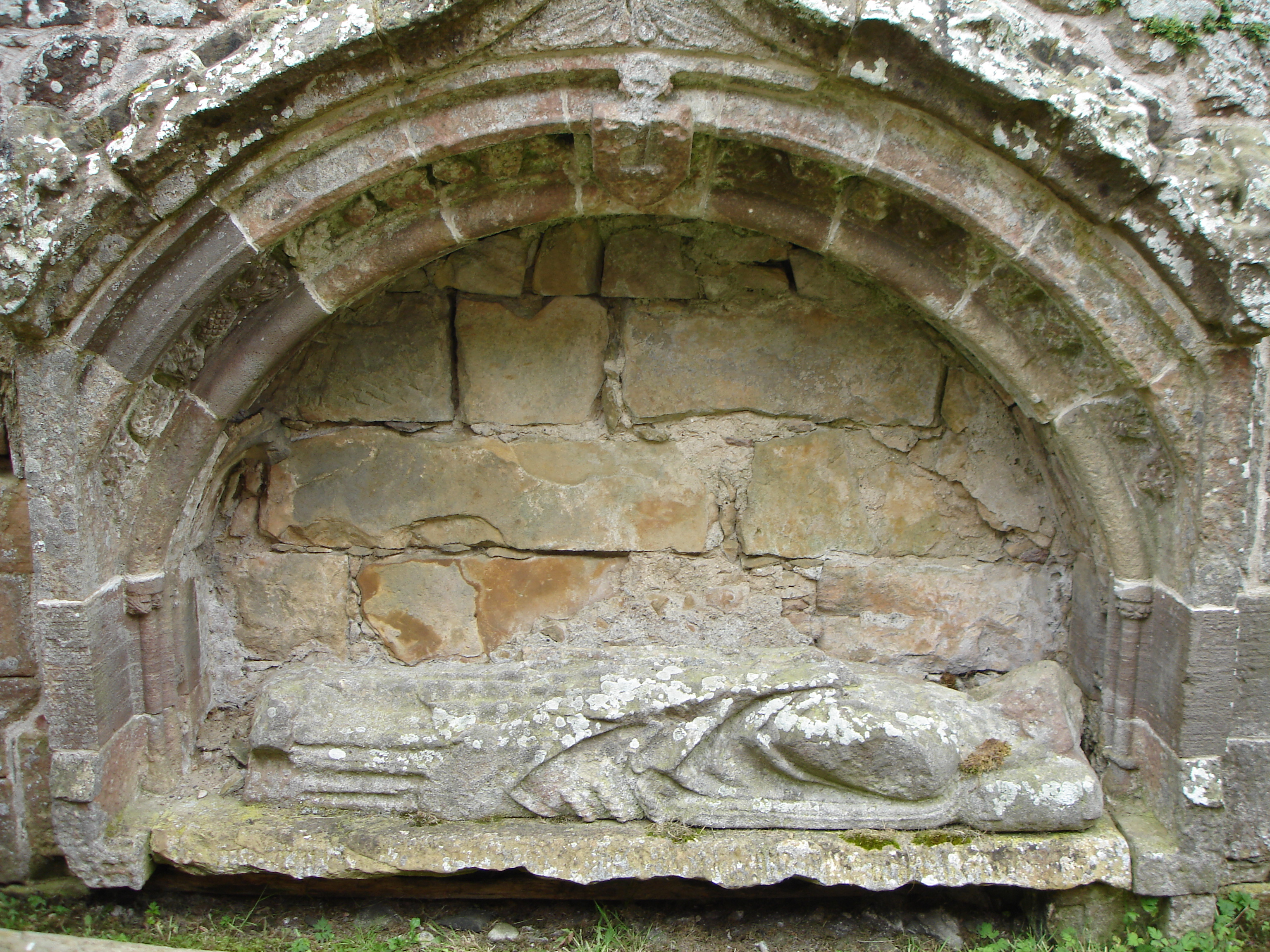 Uploader's own picture. Tomb of Fionnlagh II, abbot of Fearn. Picture taken at Fearn Abbey in summer 2006.